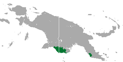 New Guinean Planigale (Planigale novaeguineae) range